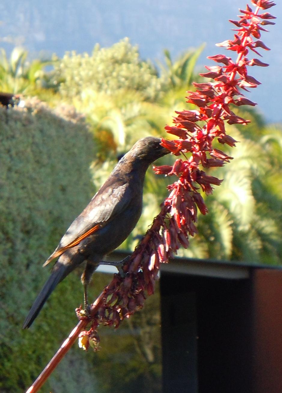 A Red-winged Starling (Onychognathus morio) feeding on a Melianthus inflorescence.